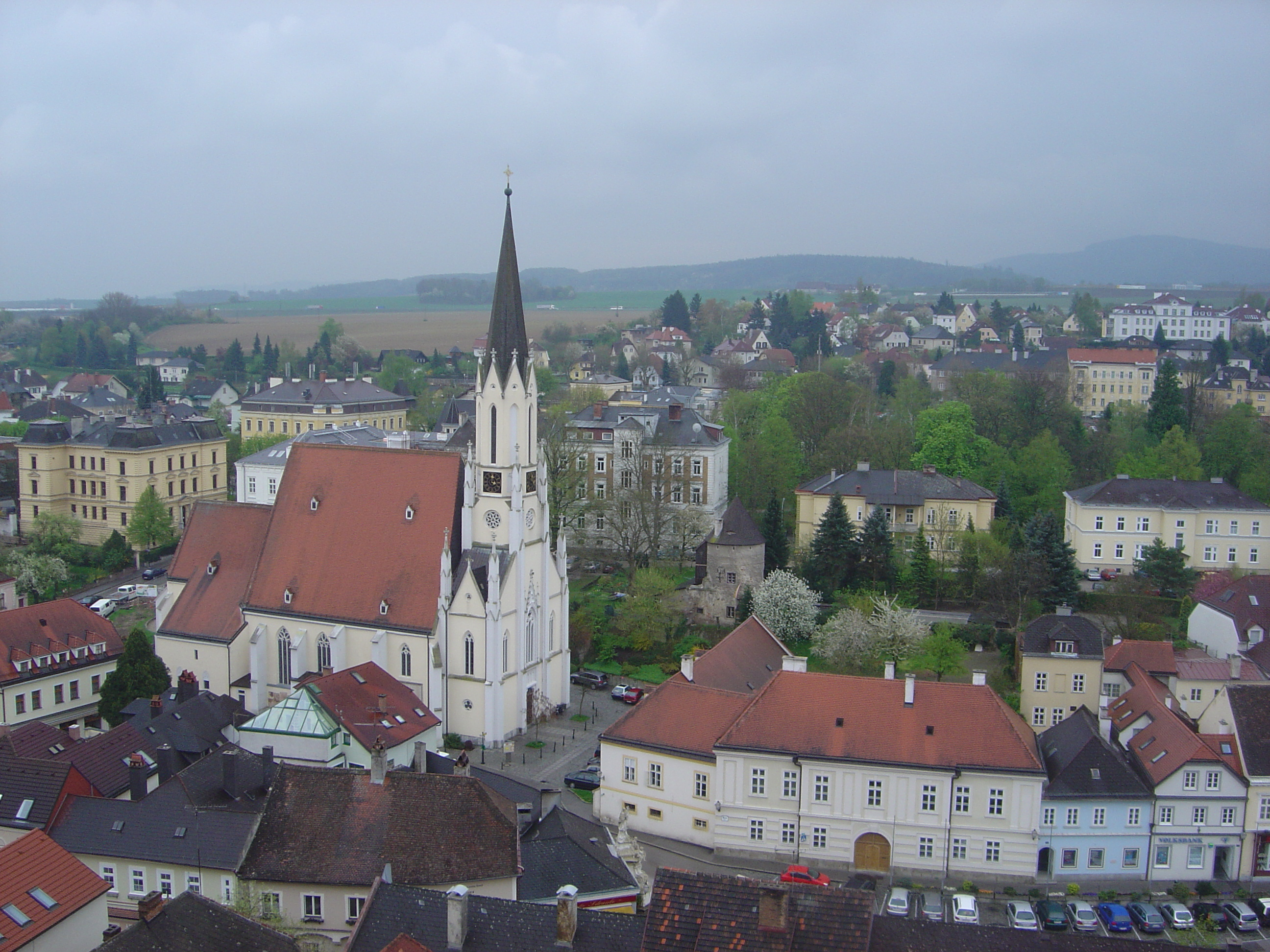 Melk, Lower Austria, seen from Melk Abbey